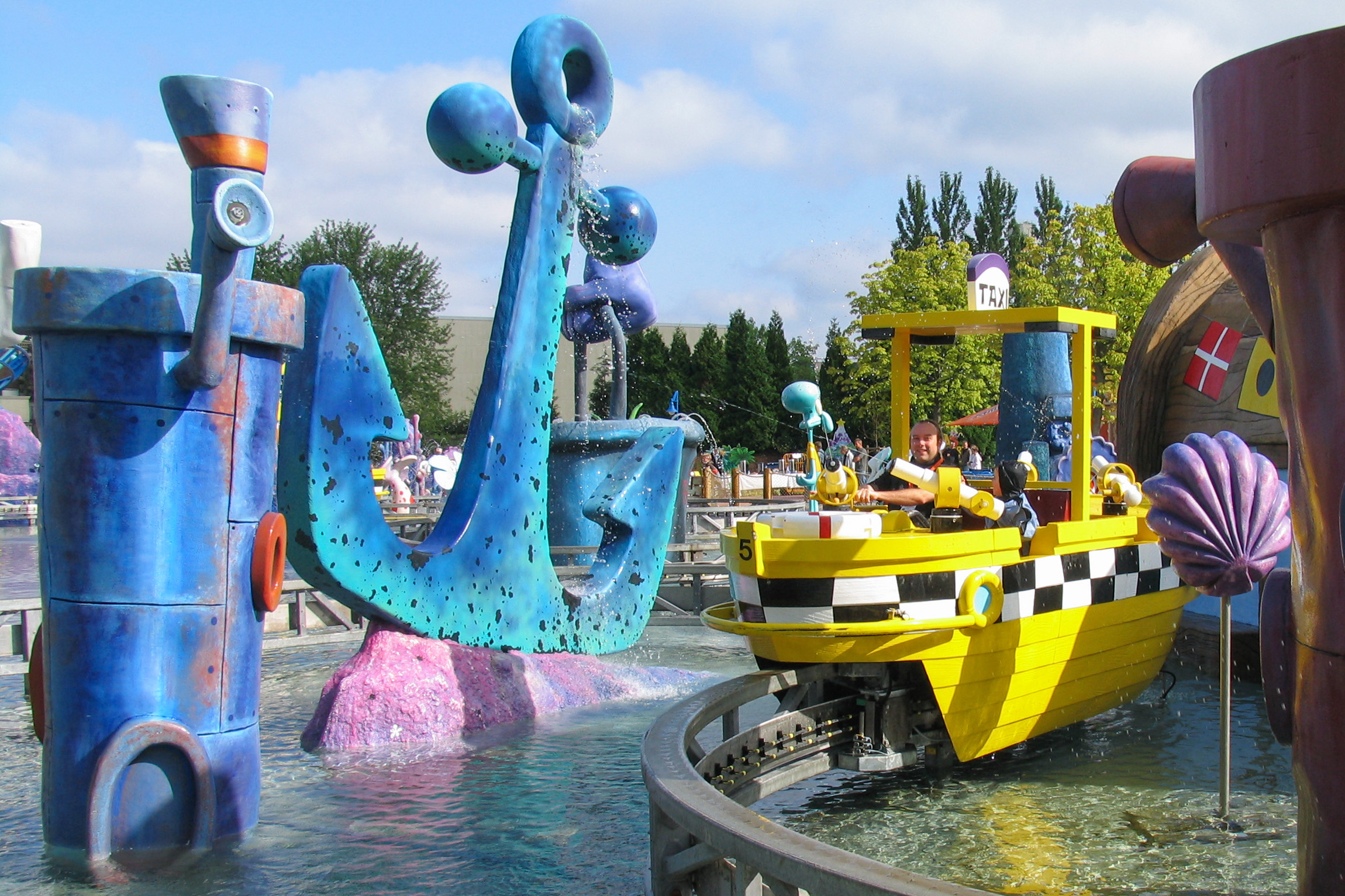 Splash Battle Sponge Bob's Splash Bash at Movie Park Germany